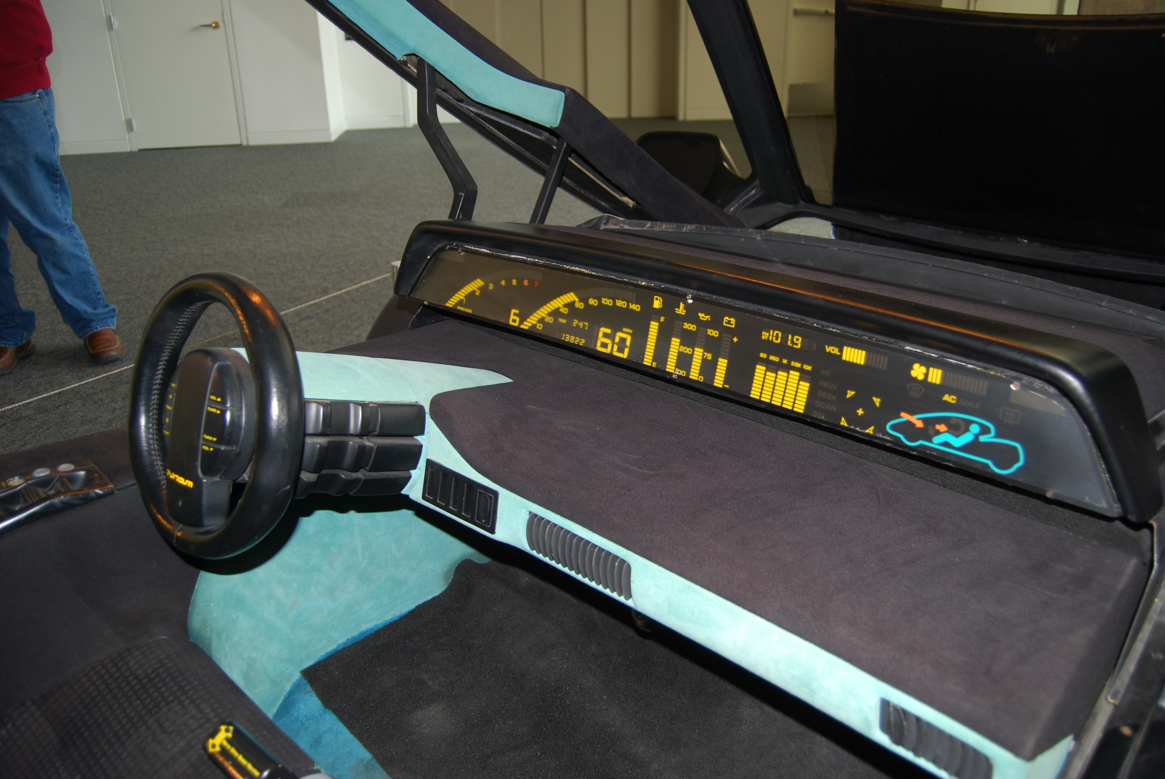 Interior of the 1988 Plymouth Slingshot concept car.